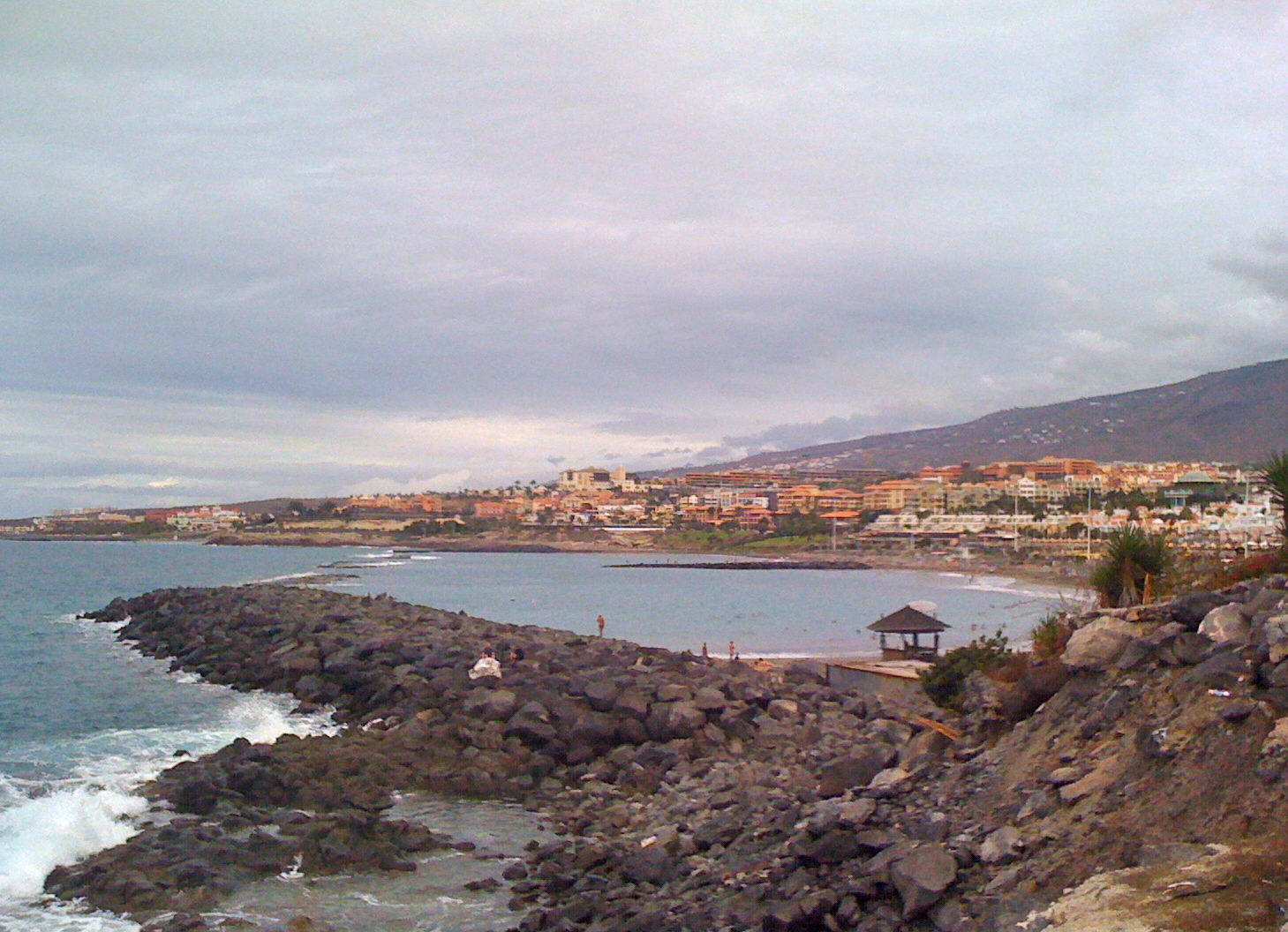 Costa Adeje view